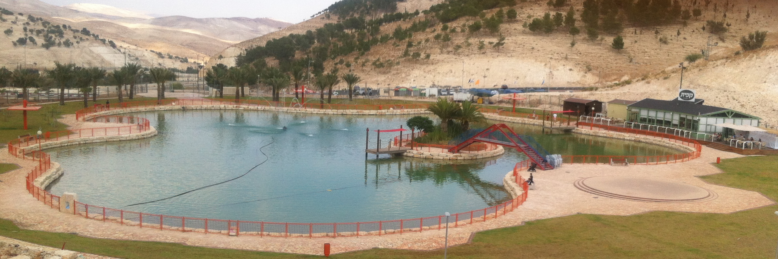 Artificial lake, Ma'ale Adumim